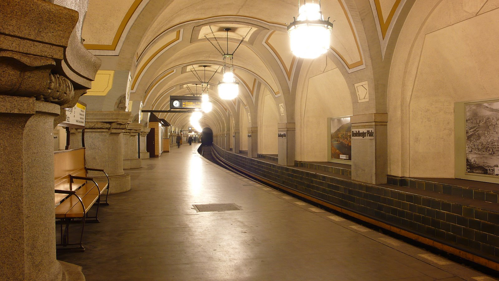 Heidelbergerplatz subway U3